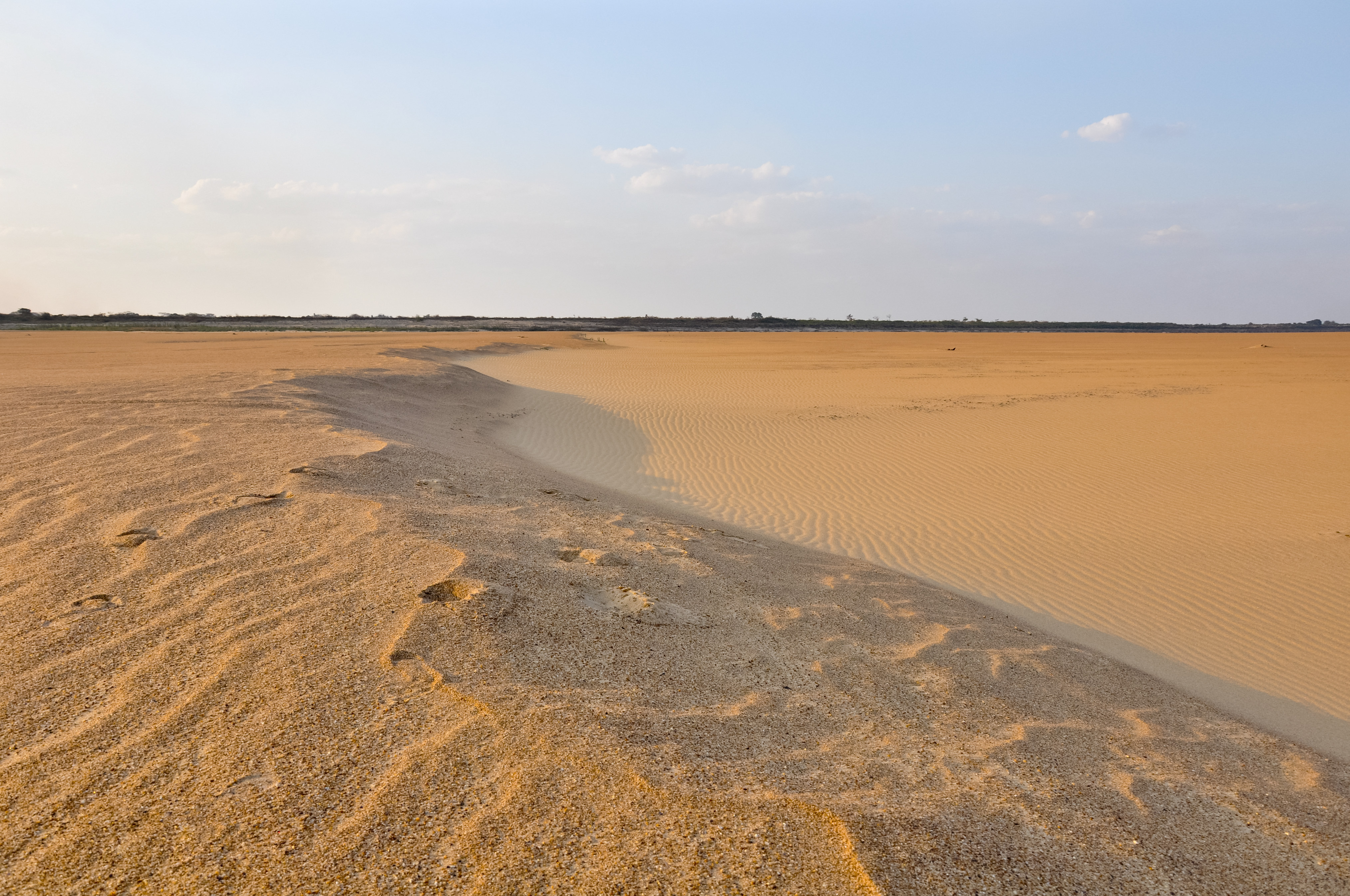 Hileros de Parmana dunes, in Venezuela